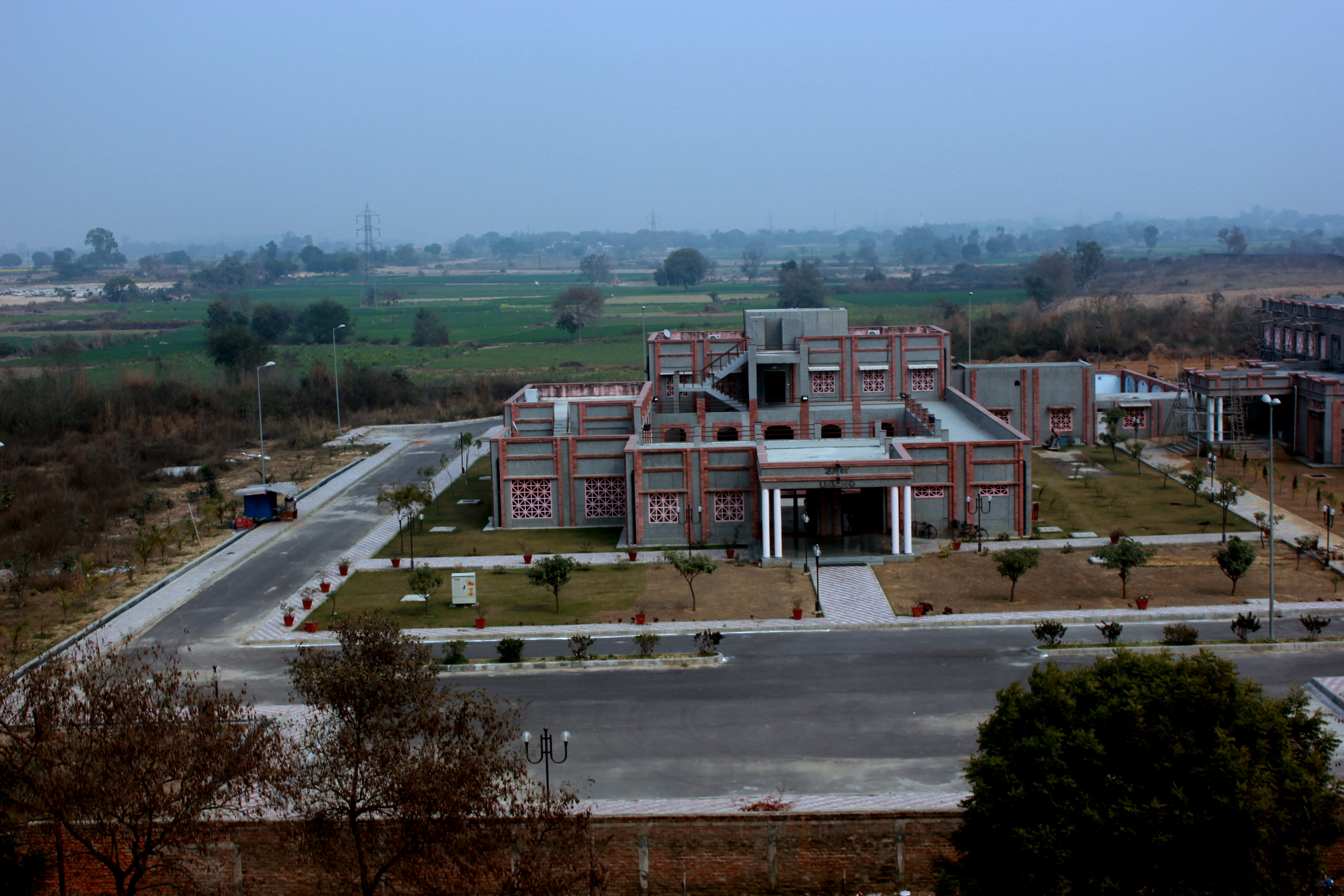 IIM Lucknow Umang